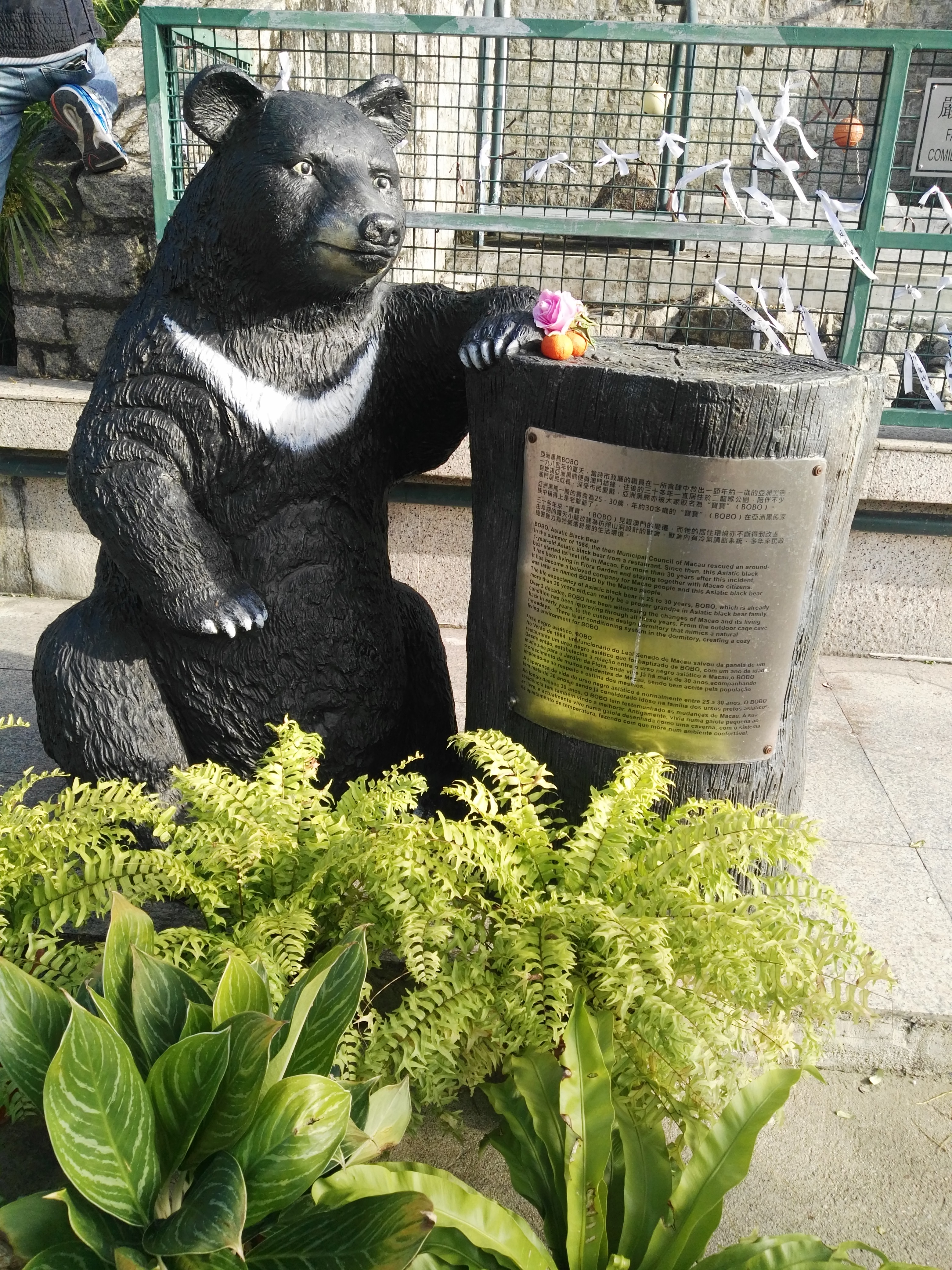 Bobo statue at Jardim da Flora, Macau